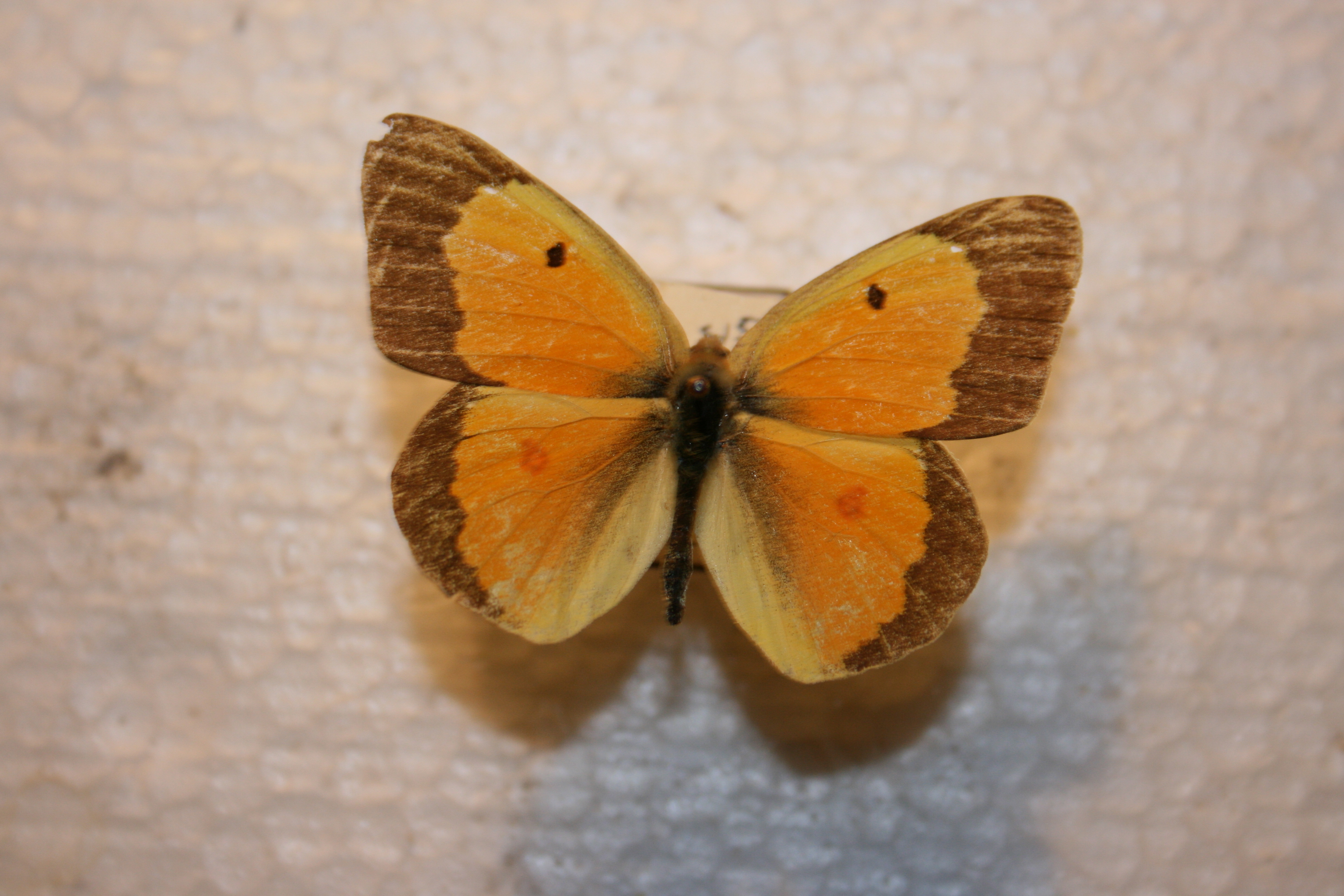 A Orange Sulphur in the Hough collection. Donated by Portage Northern High School. Caught in Bayfield, CO.